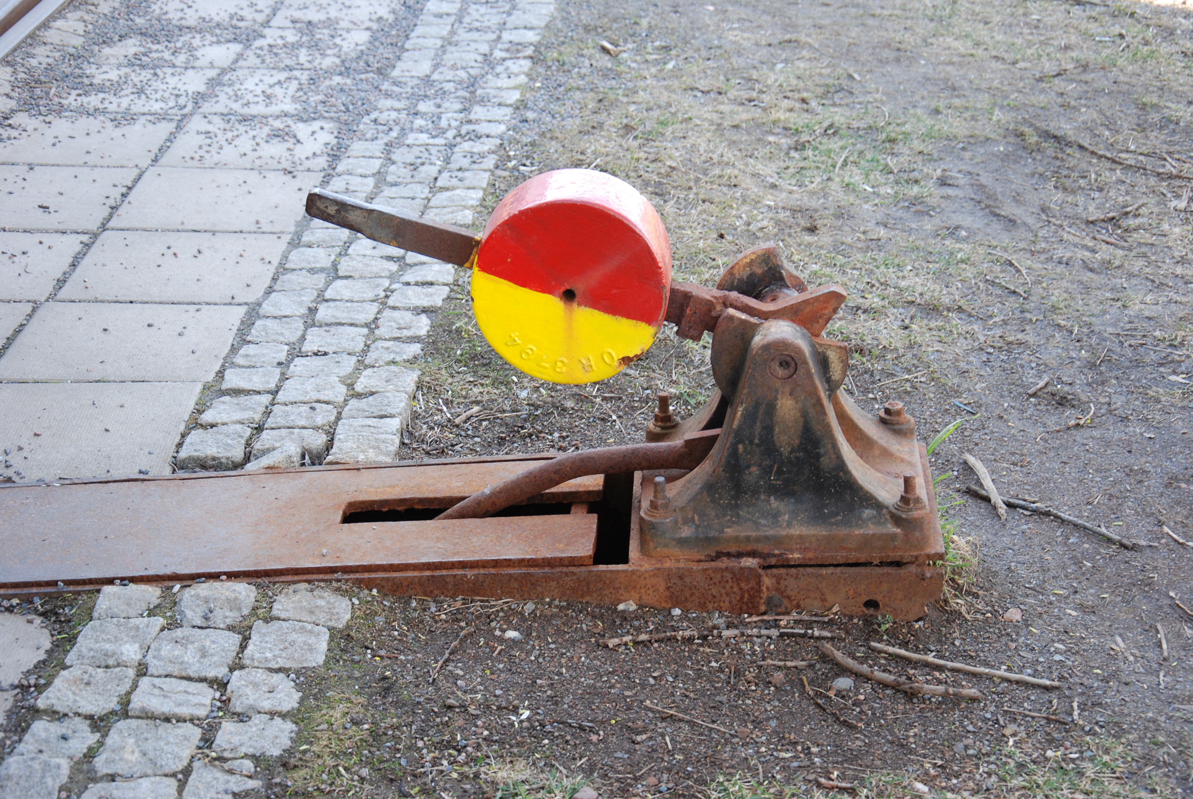 Railway switch lever, Liljeholmen, Stockholm, Sweden